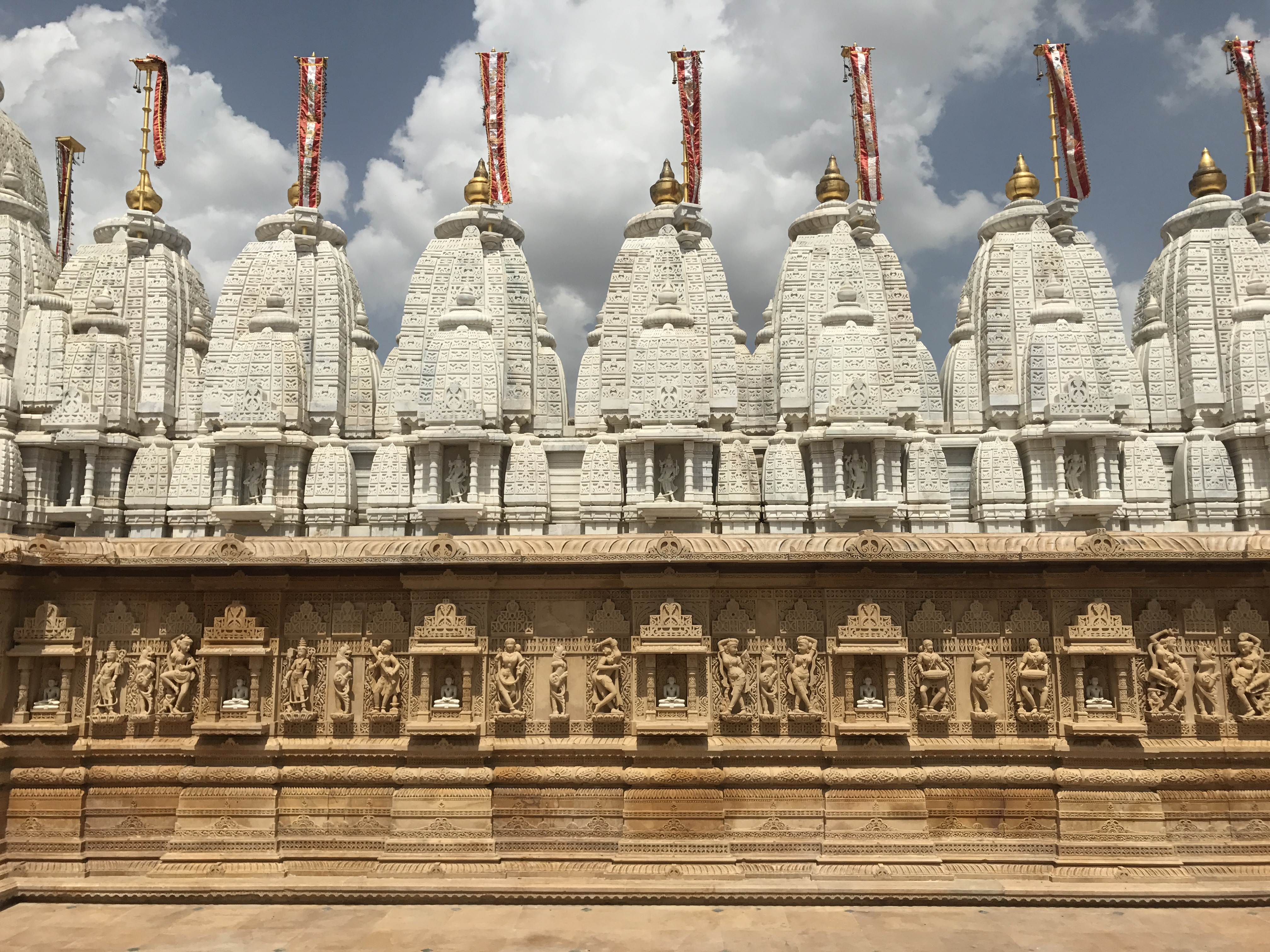 Sculptures at Shankheshwara Parshwanath Jain Temple